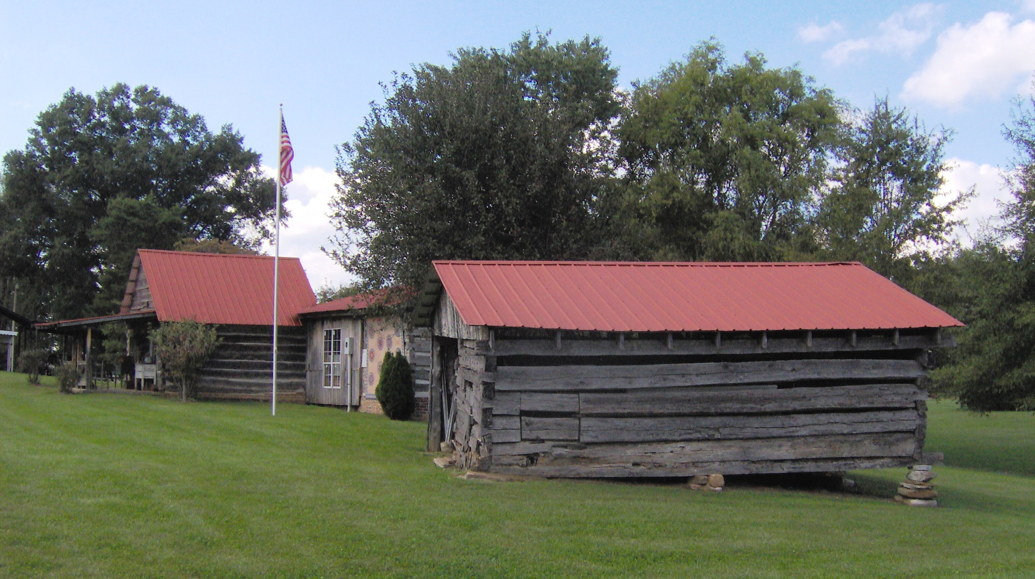 Smokehouse (left) and corn crib (right, foreground) at White Plains, a former antebellum plantation near Algood, Tennessee, USA. The smokehouse has been remodeled as a log cabin.